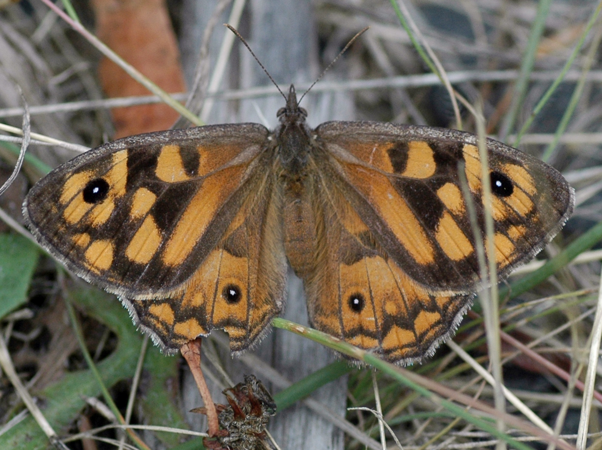 Klug's xenica (Geitoneura klugii)